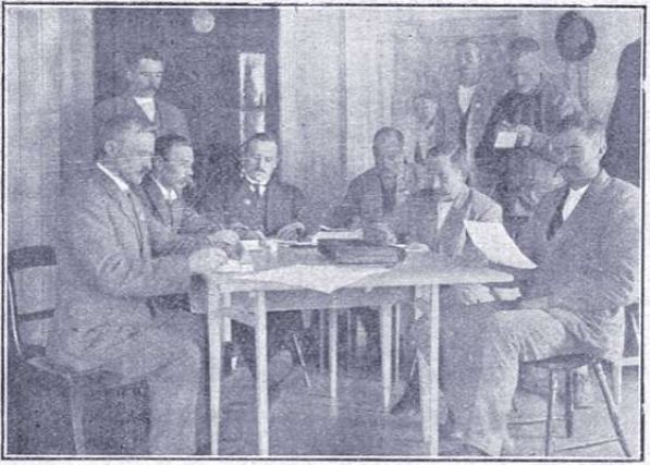 Finnish revolutional court of Yläne 1918 during the Finnish civil war.